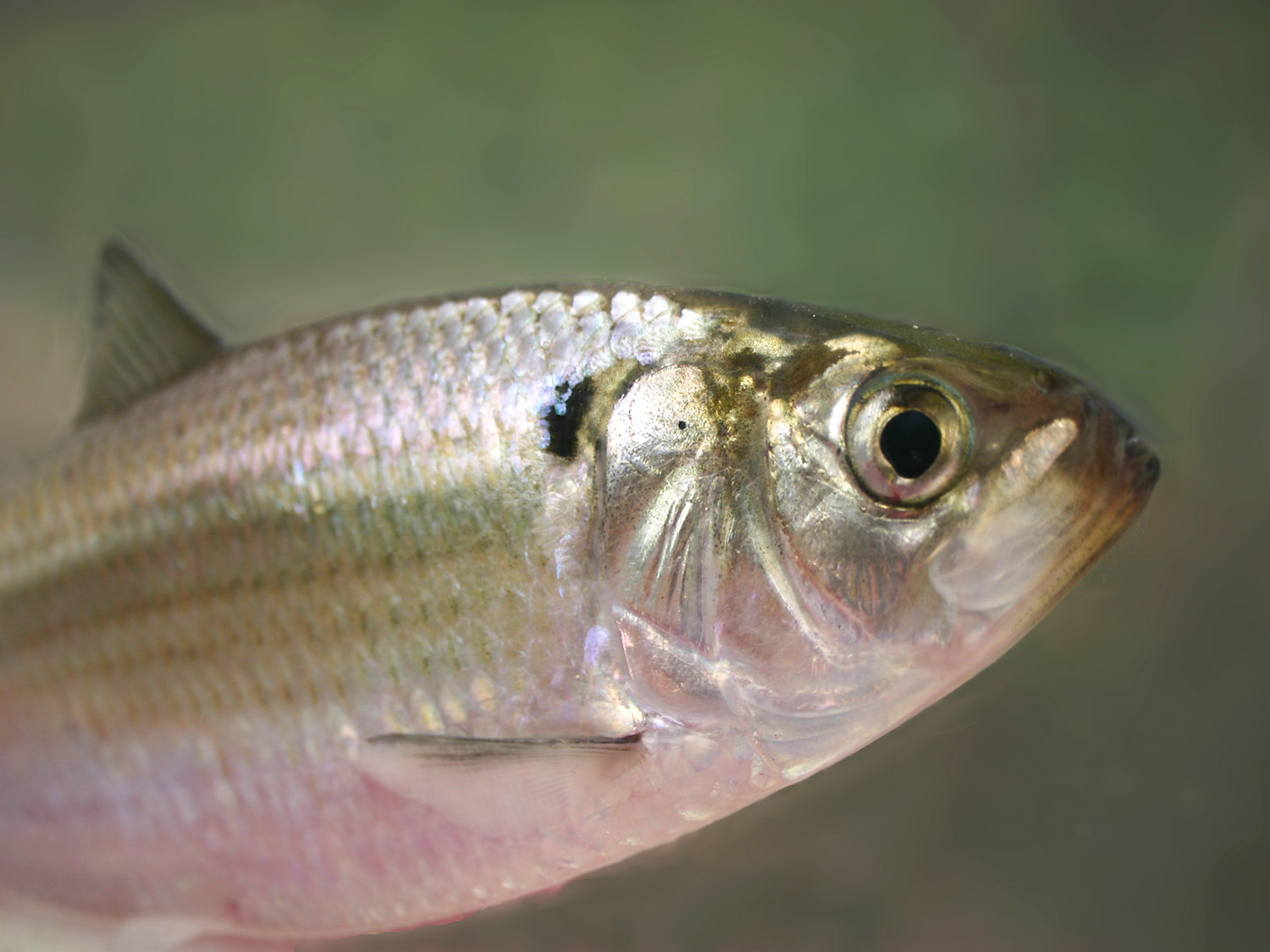 In spring, gizzard shad (Dorosoma cepedianum) may head upstream from their Potomac River home to spawn in Rock Creek and other tributaries.Photographer: Flickr user Brian Gratwicke Original url: Shared under Creative Commons BY.